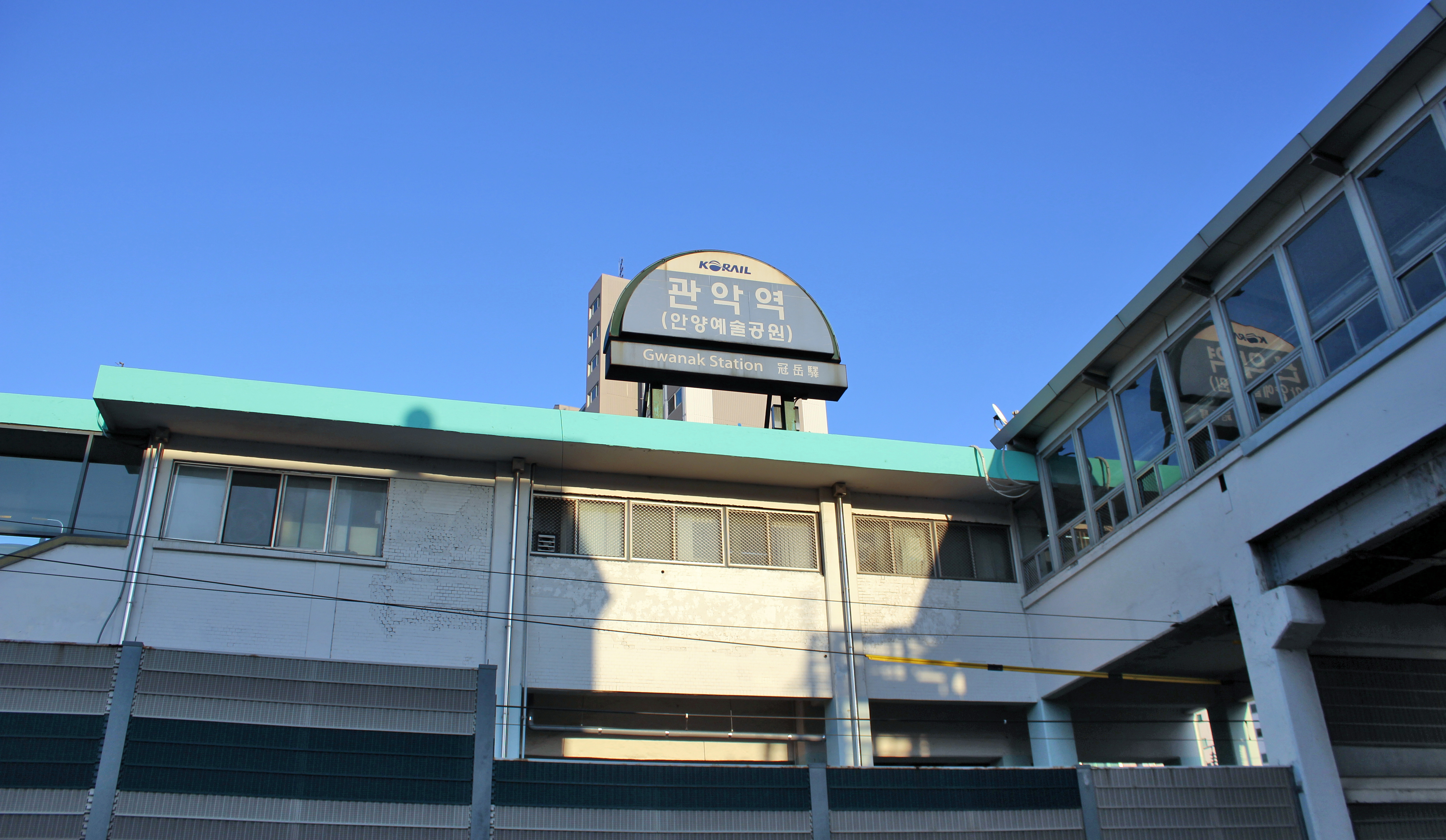 Gwanak Station